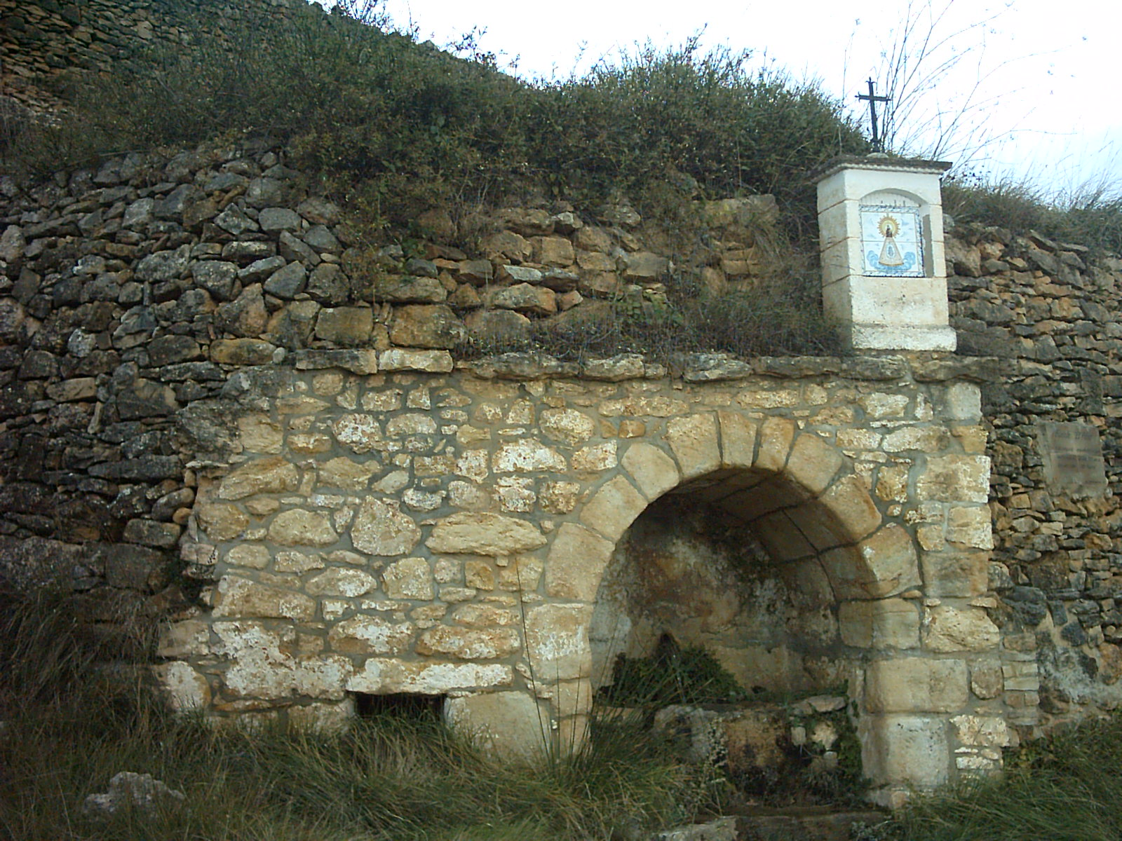 Cortes de Arenoso, Fuente El Pilar